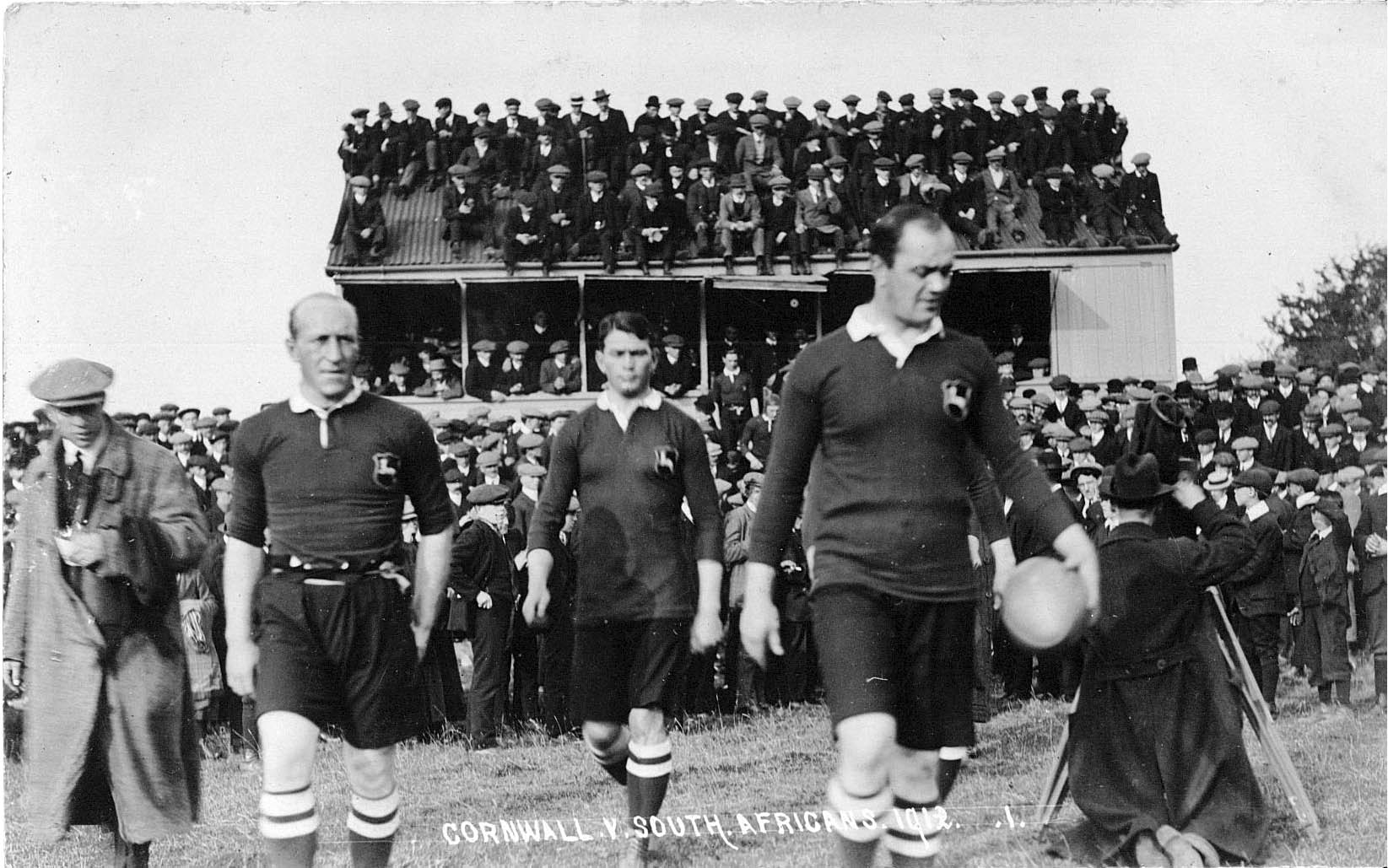 South Africa rugby team entering the pitch to play Cornwall. Douglas Morkel (c) holding the ball; besides him, G. Thompson (left) and S.N. Croje.